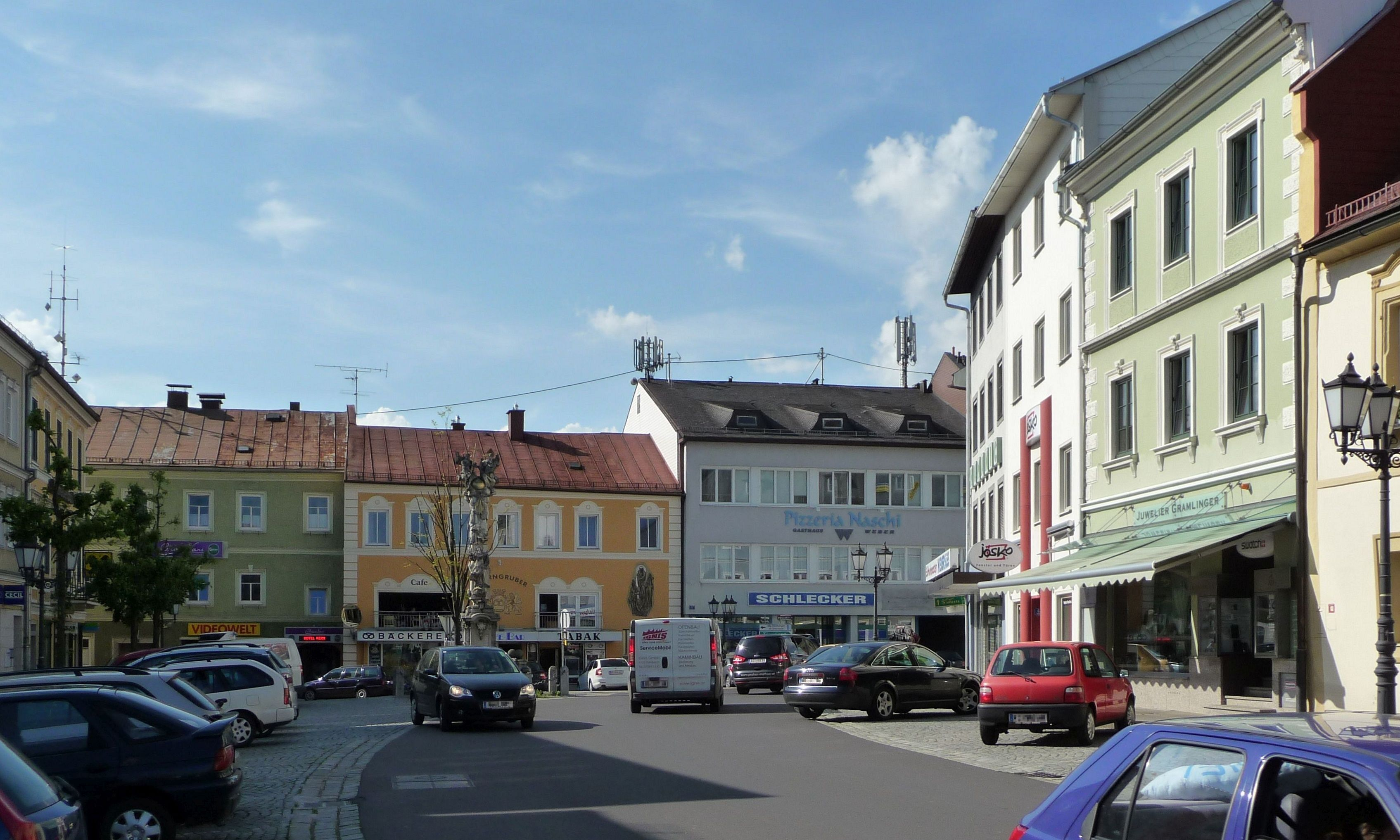 Main square in Rohrbach Upper Austria